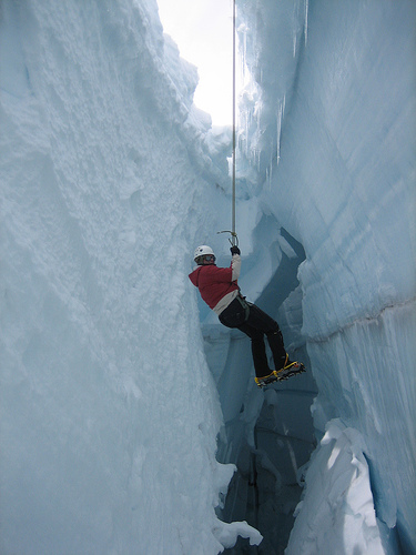 pictures by Hans Brandal